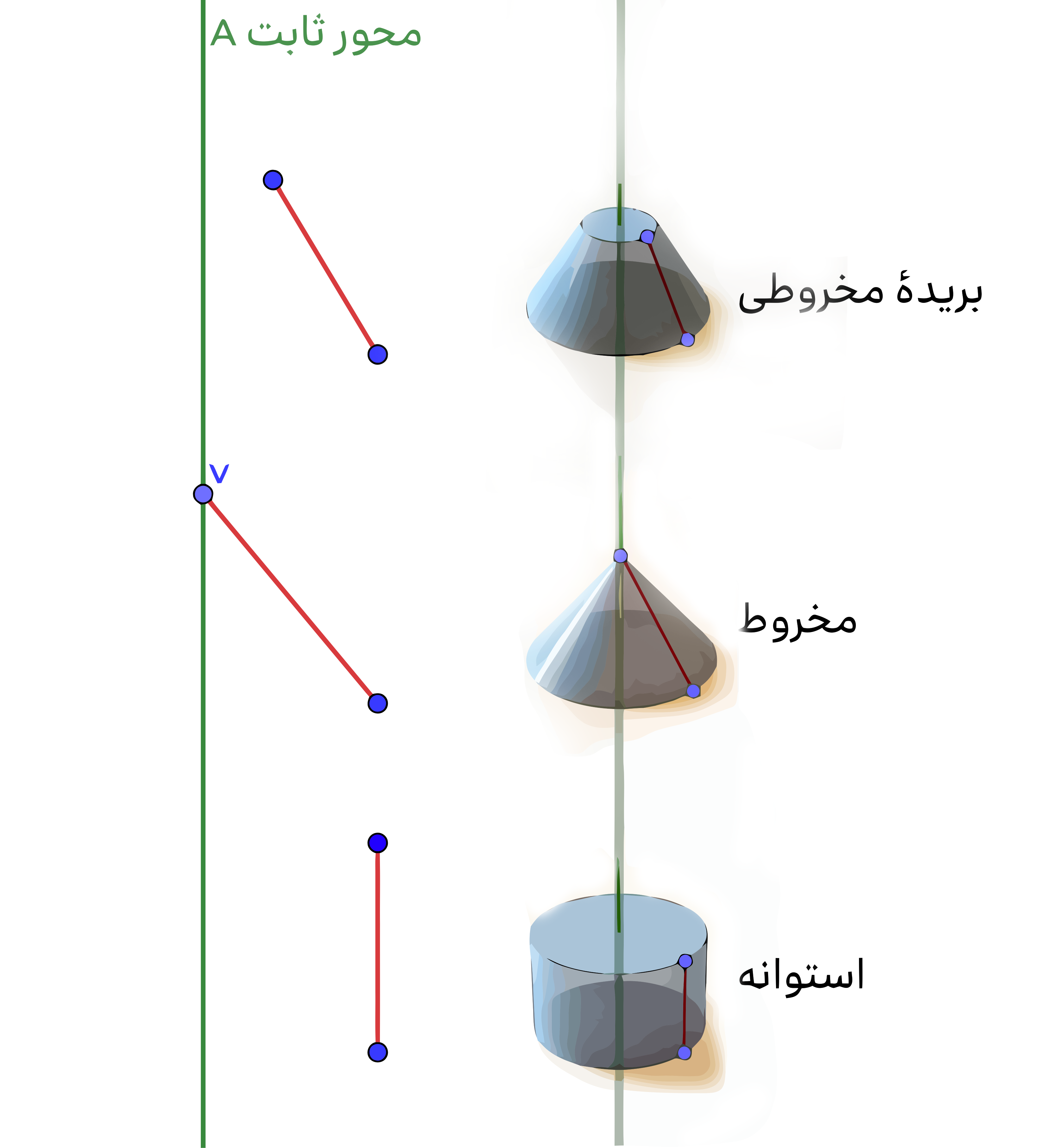 Surfaces of Revolution Generated by Segment / Persian